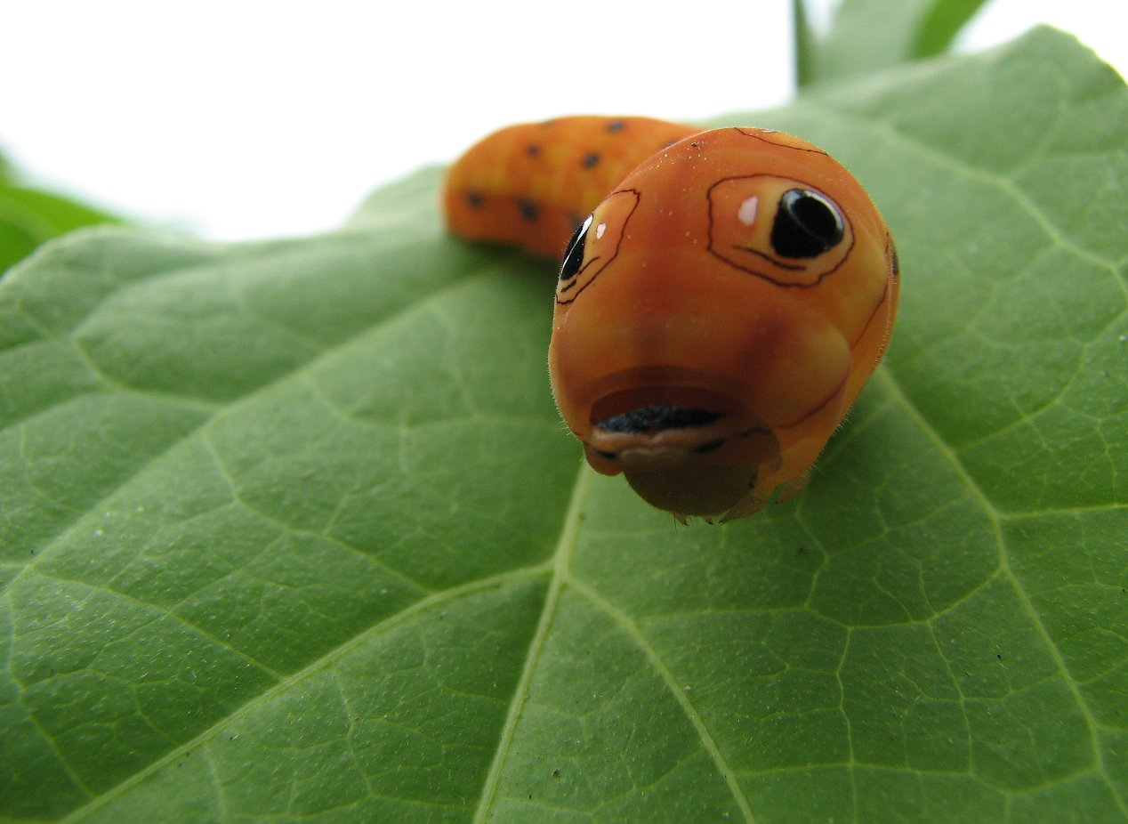 Frozen Head Natural Area & State Park, Morgan County, Tennessee, USA. 23 August 2007.